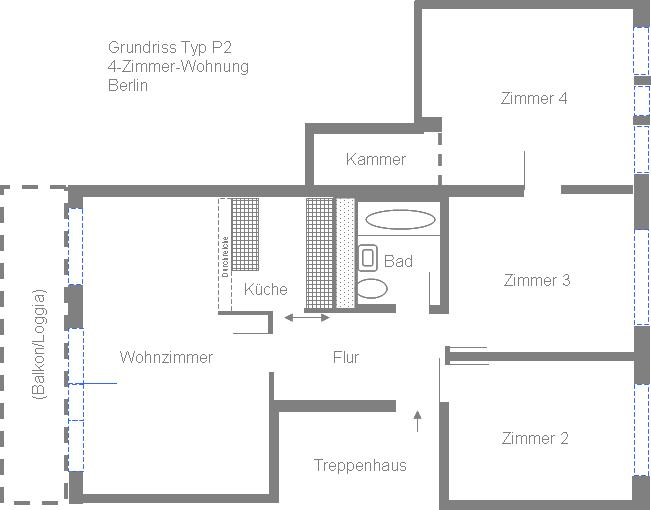 ground plan P2 at Platz der Vereinten Nationen in Berlin-Friedrichshain